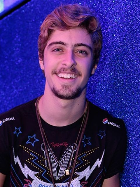 Eike Duarte Carnaval